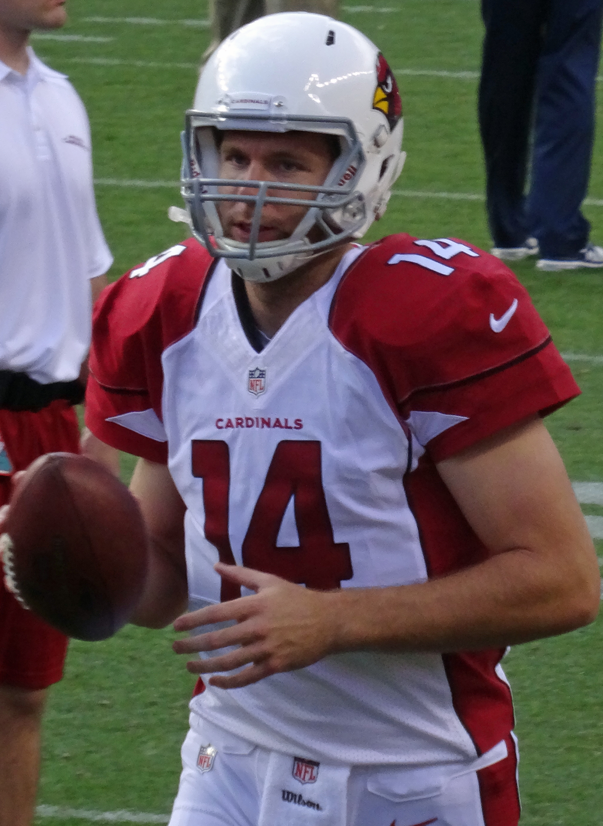 Ryan Lindley, a player on the National Football League.